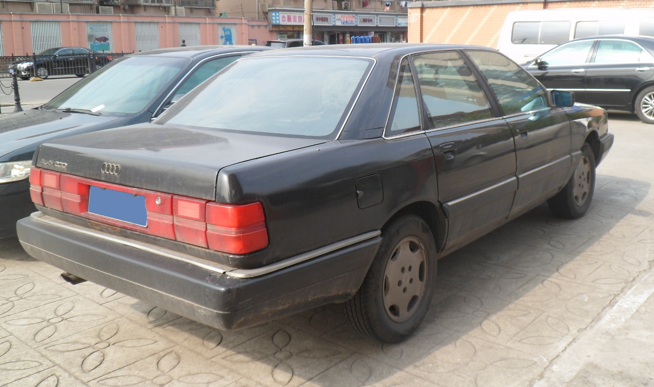 Audi 200 C3 photographed in Shanghai, China.